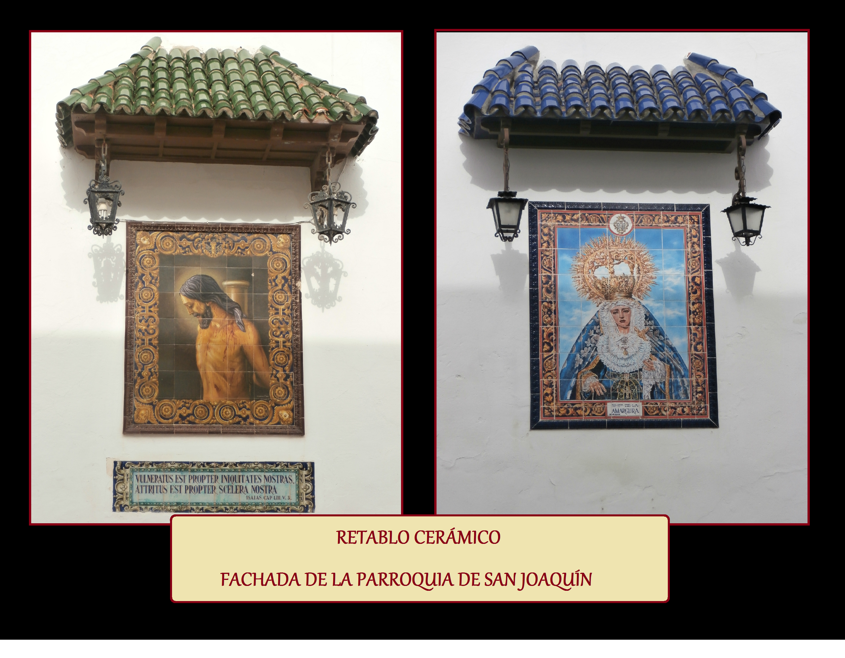 Retablo Cerámico Hdad. Flagelación